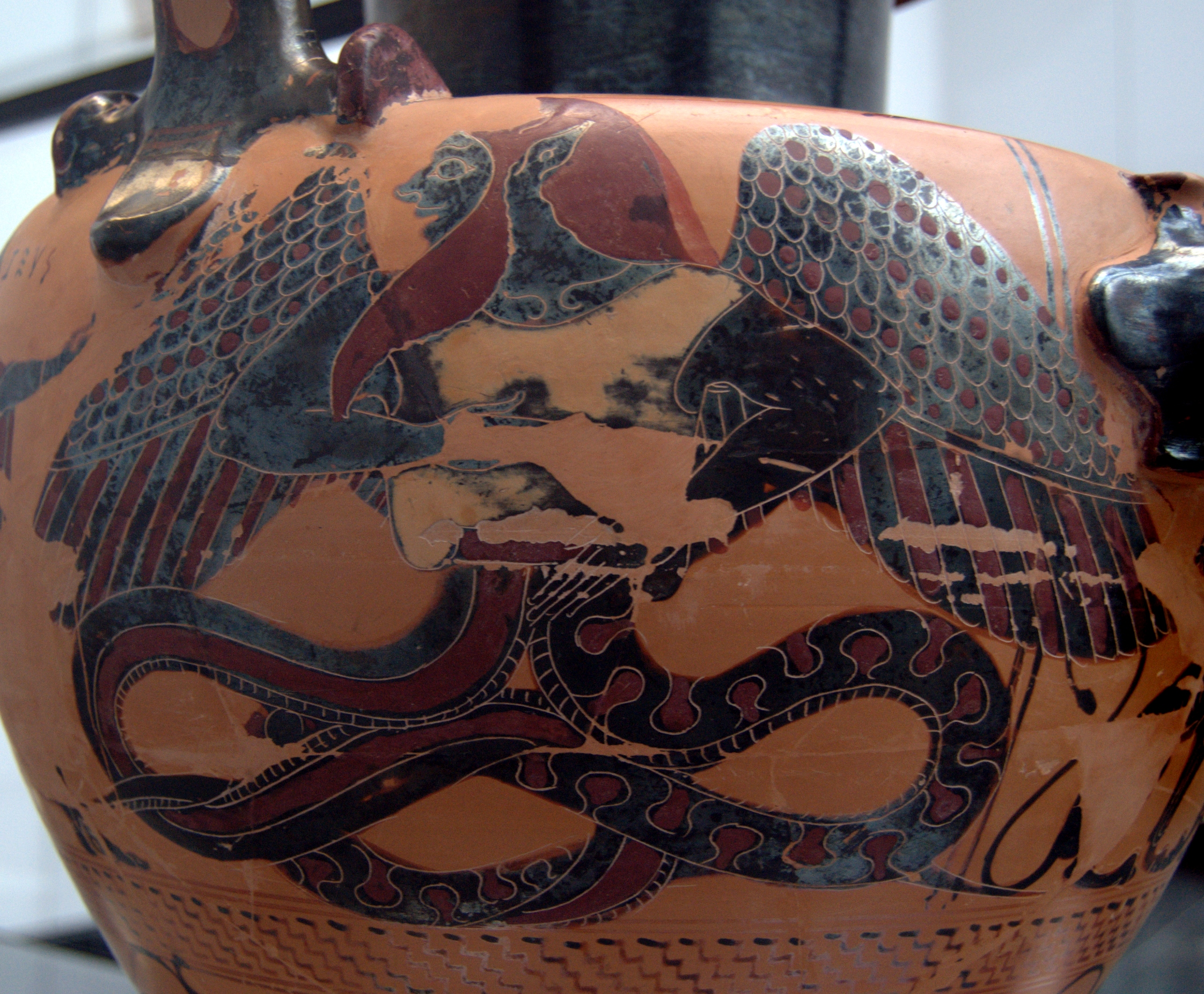 Chalcidian black-figured hydria. Side A: wrestling of Peleus and Atalanta for the funerary games of king Pelias. In background, the prize of the duel: the skin and the head of the Calydonian boar. Side B: Zeus darting its lightning on Typhon. Names inscriptions are written in the alphabet of Chalcis in Euboea. Typhon. Detail of the side B.